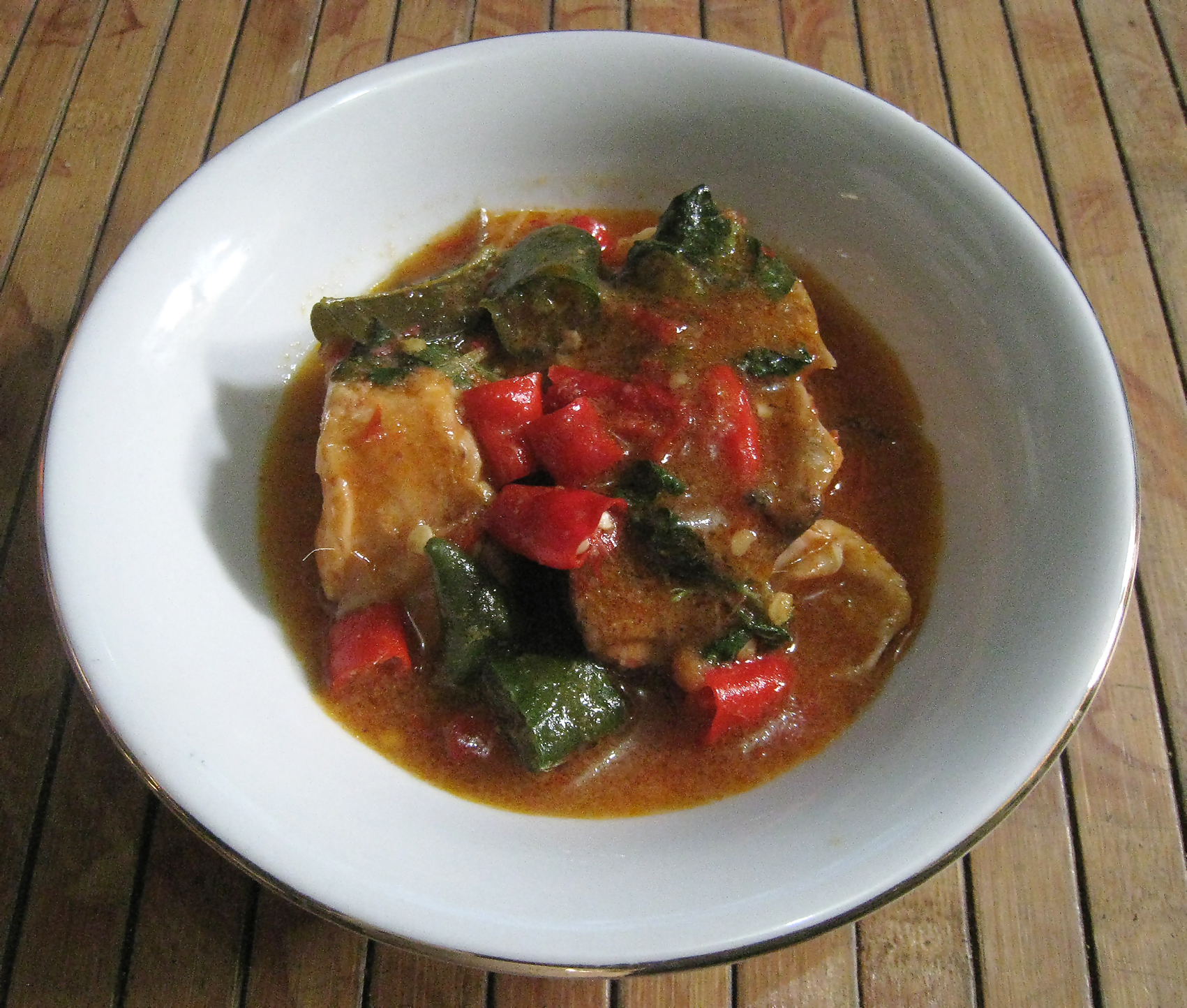 Ayam Rica-rica, chicken cooked in spicy red and green chilli pepper, a Manado (Minahasan) cuisine, Indonesia.